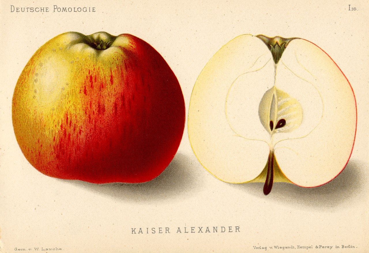 Illustration 16 from Deutsche Pomologie - Aepfel Apple cultivar shown: Kaiser Alexander (Grand Alexandre)